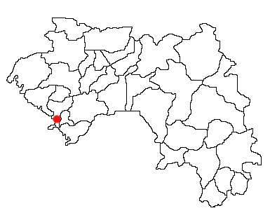 Dubréka, Guinea Location Map; created with the GIMP. Made by User:Acntx.